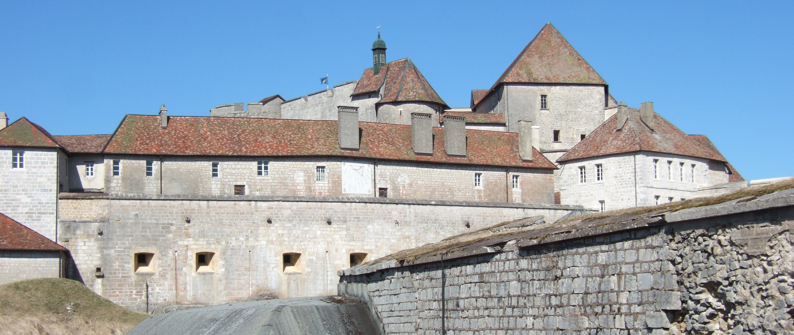 Fort de Joux